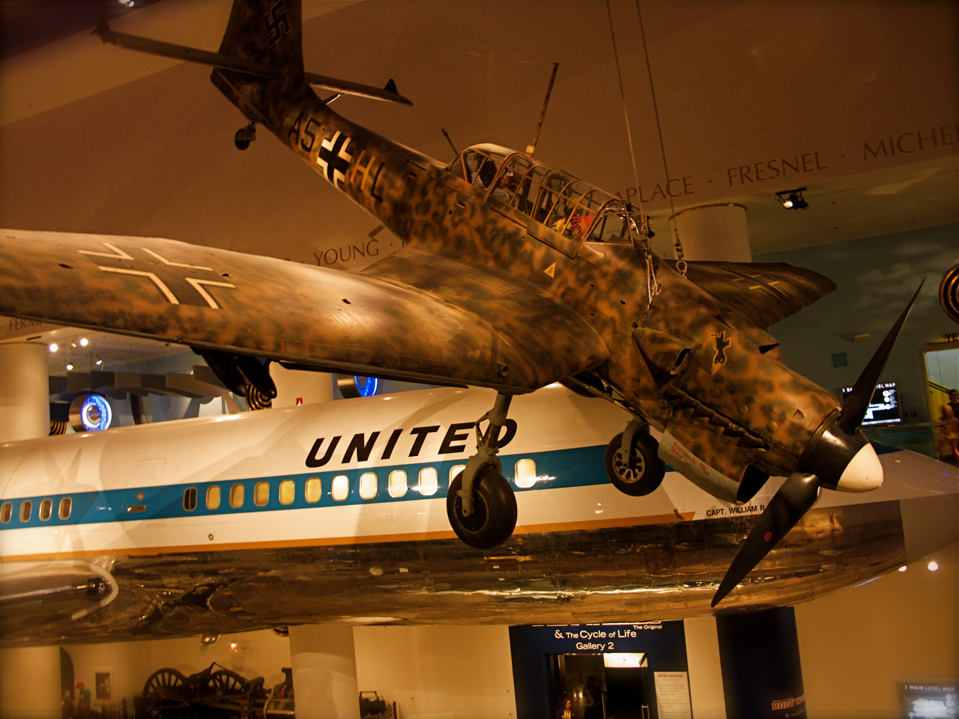 A picture of a Junkers Ju 87 on display in the Museum of Science and Industry in Chicago. Germany used this plane during World War II to inflict serious damage on cities and towns. The Junkers Ju 87, or "Stuka", was a dive-bomber. Each Stuka carried sirens to terrify their targets before dropping its payload. Their wings were inverted gull wings.